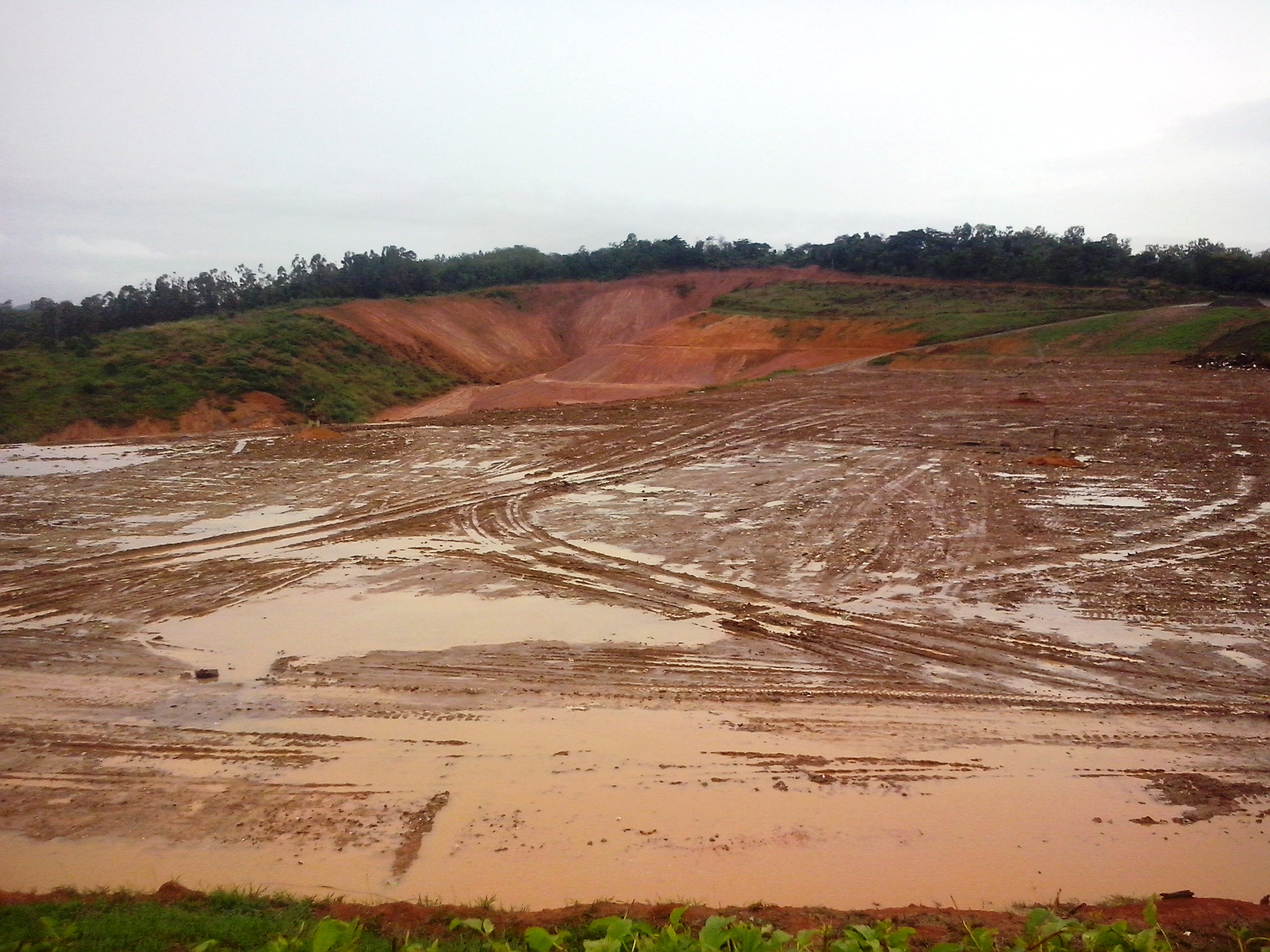 View of the landfill of the Residues Center of Vale do Aço, in Santana do Paraíso, Minas Gerais, Brazil.